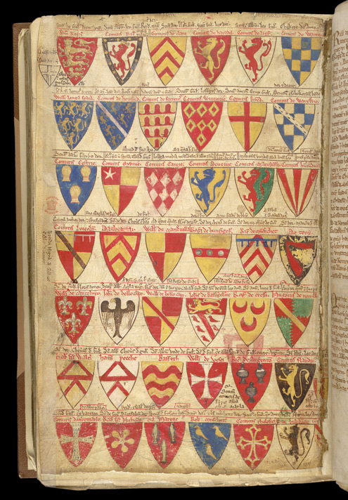 Matthew Paris (d. 1259), Liber Additamentorum (Book Of Additions); heraldic shields of King Henry III and his principal nobles.